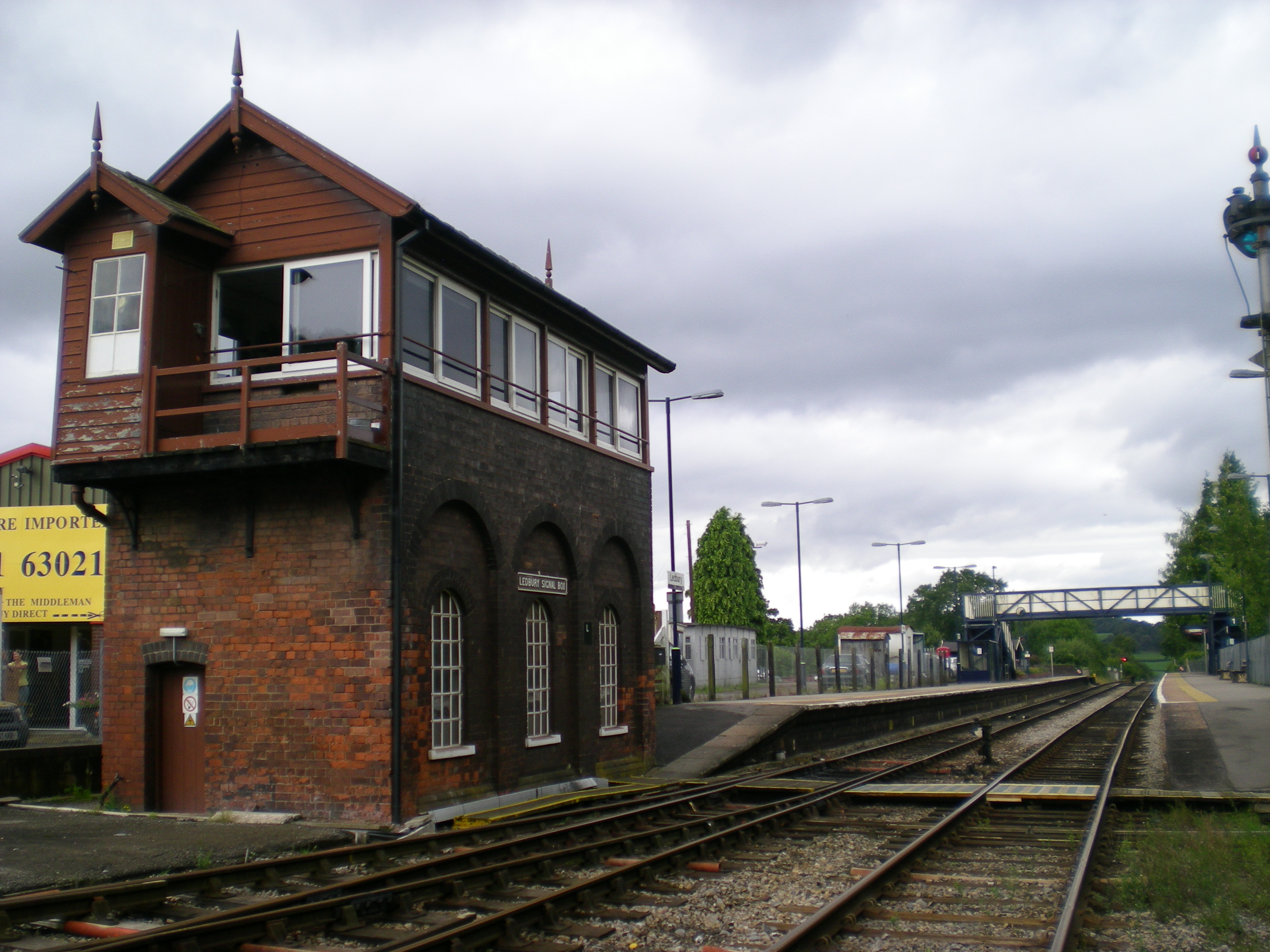 This view shows the entrance door to the frame room and above the balcony with modern toilet enclosure